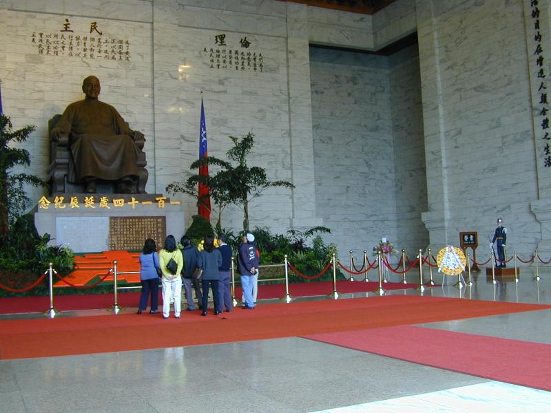 Inside the main chamber of the National Chiang Kai-shek Memorial Hall. Notice the flag of the Republic of China, statue of President Chiang Kai-shek, the guard standing duty to the right. The gold lettering at the bottom of his statue commemorates President Chiang Kai-Shek's 114th birthday.